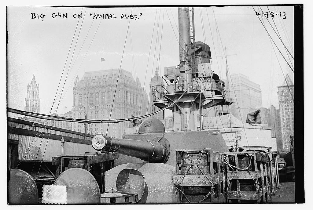 Photograph of 194 mm main gun on French armoured cruiser Amiral Aube. 1 negative : glass ; 5 x 7 in. or smaller.